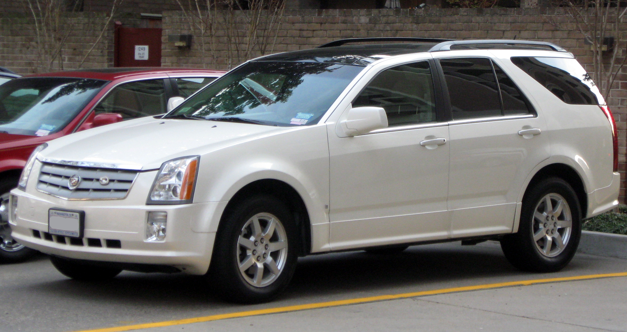 2006-2009 Cadillac SRX photographed in Washington, D.C., USA.